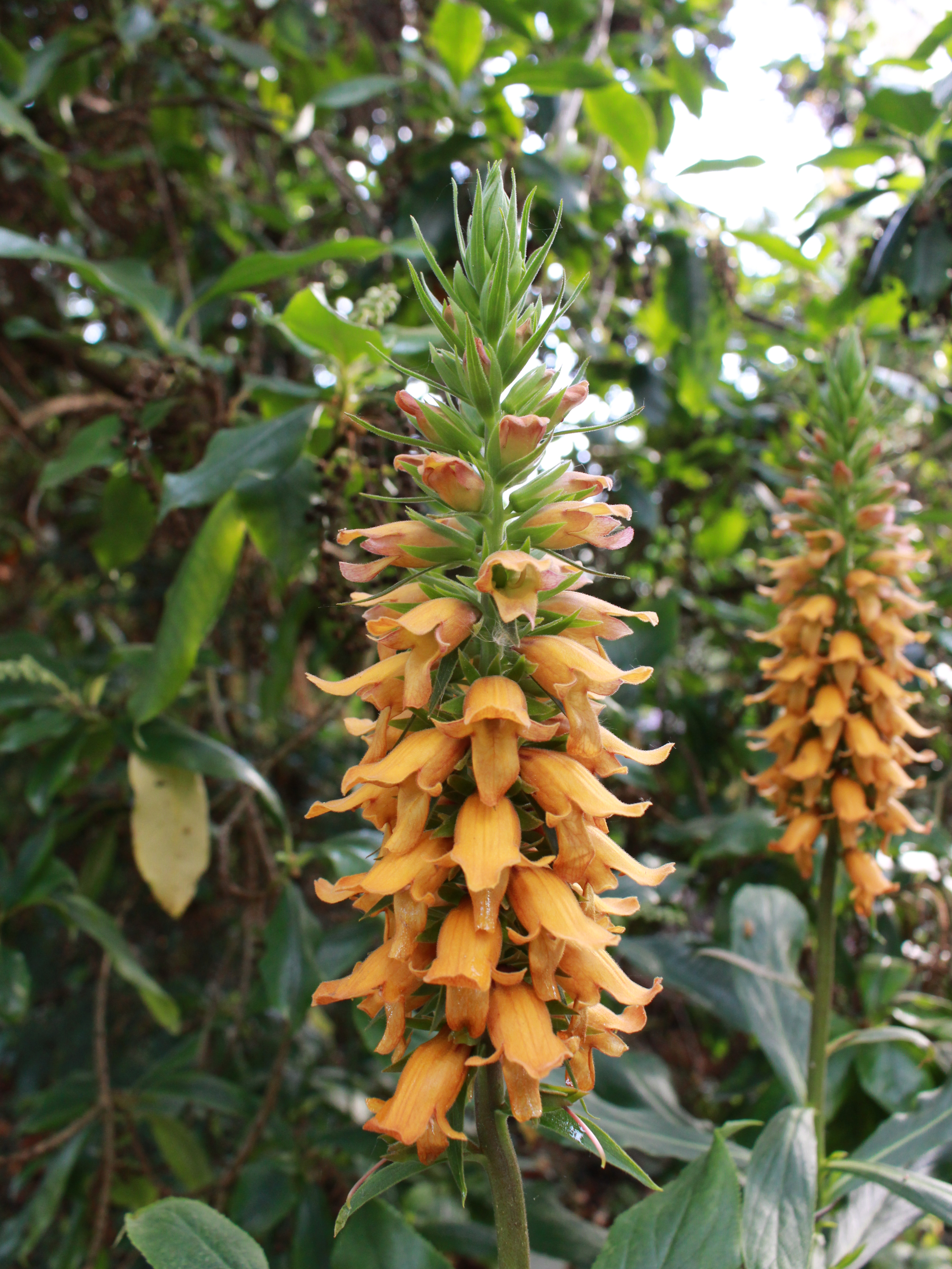 Digitalis sceptrum L. fil. in the Botanischer Garten Berlin-Dahlem.